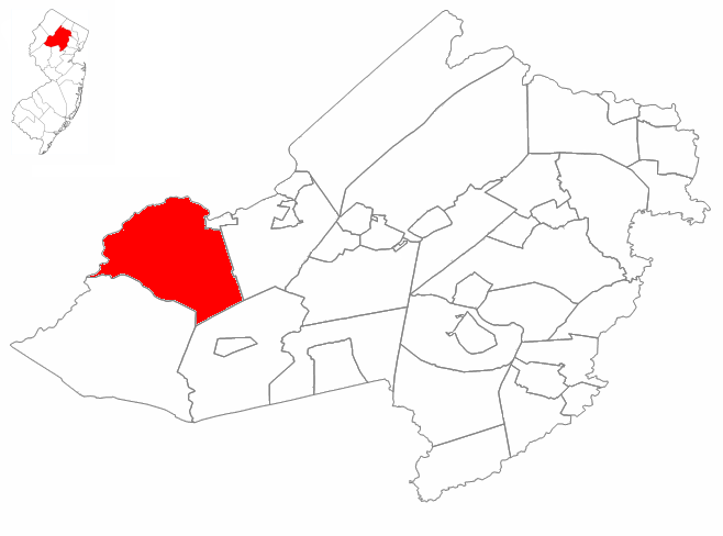 Position of Mount Olive Township (highlighted in red) in Morris County. Morris County's position in New Jersey is in turn highlighted in red.